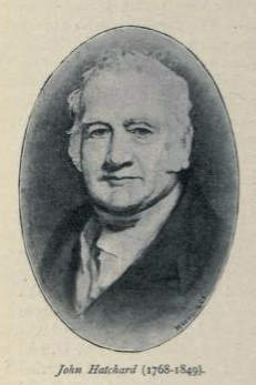 Portrait of John Hatchard (1769–1849), English publisher and bookseller.